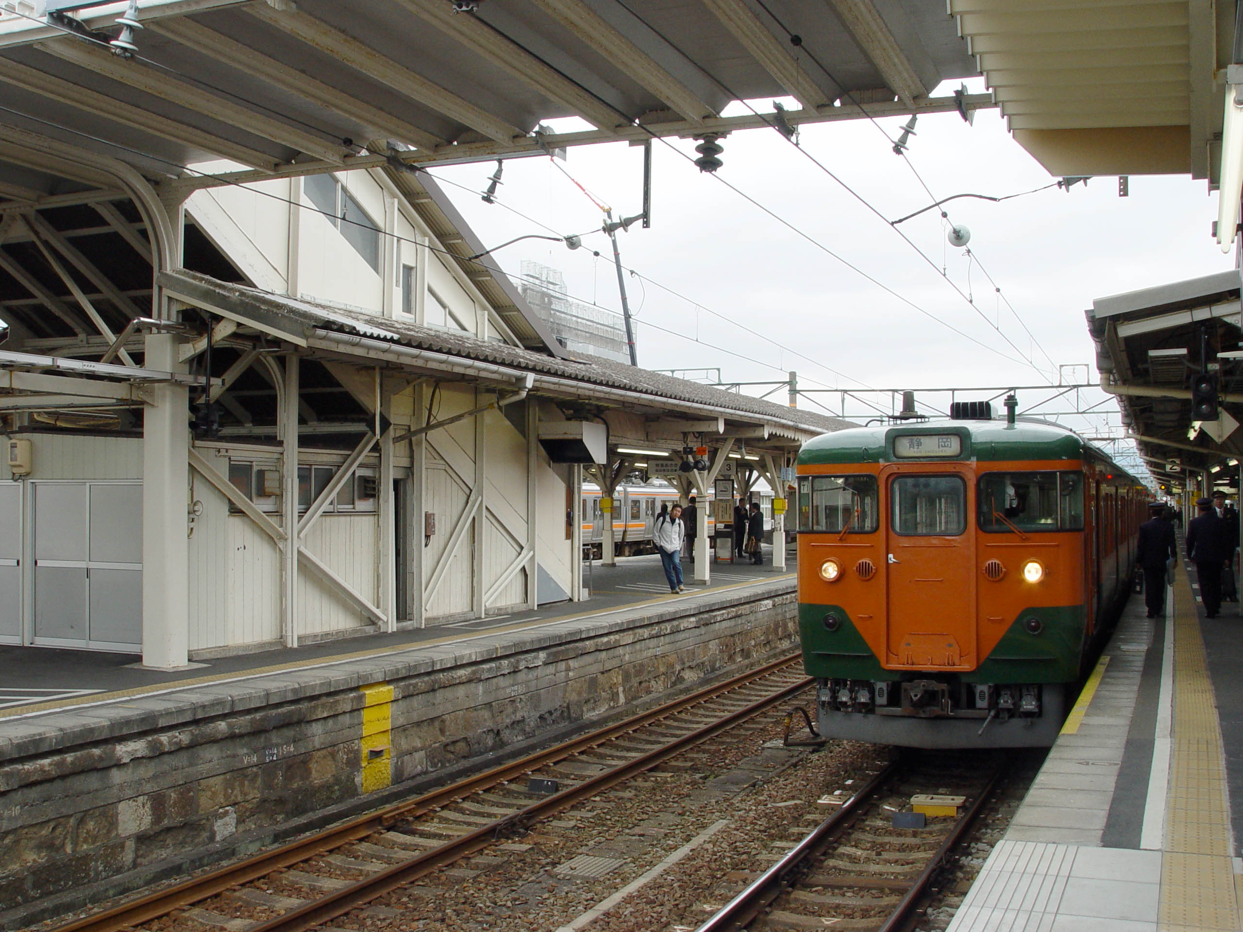 Numazu Station, Tokaido Line and Gotenba Line, Japan